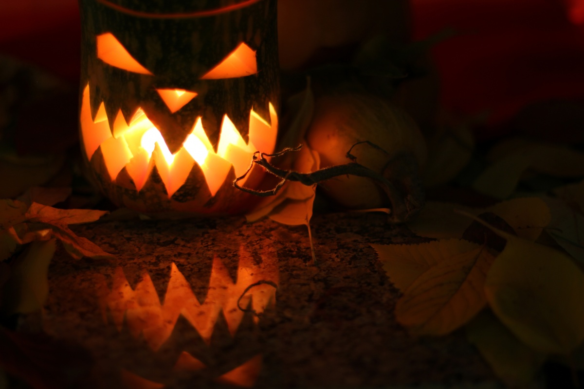 Lamp pumpkin jack-o'-lantern